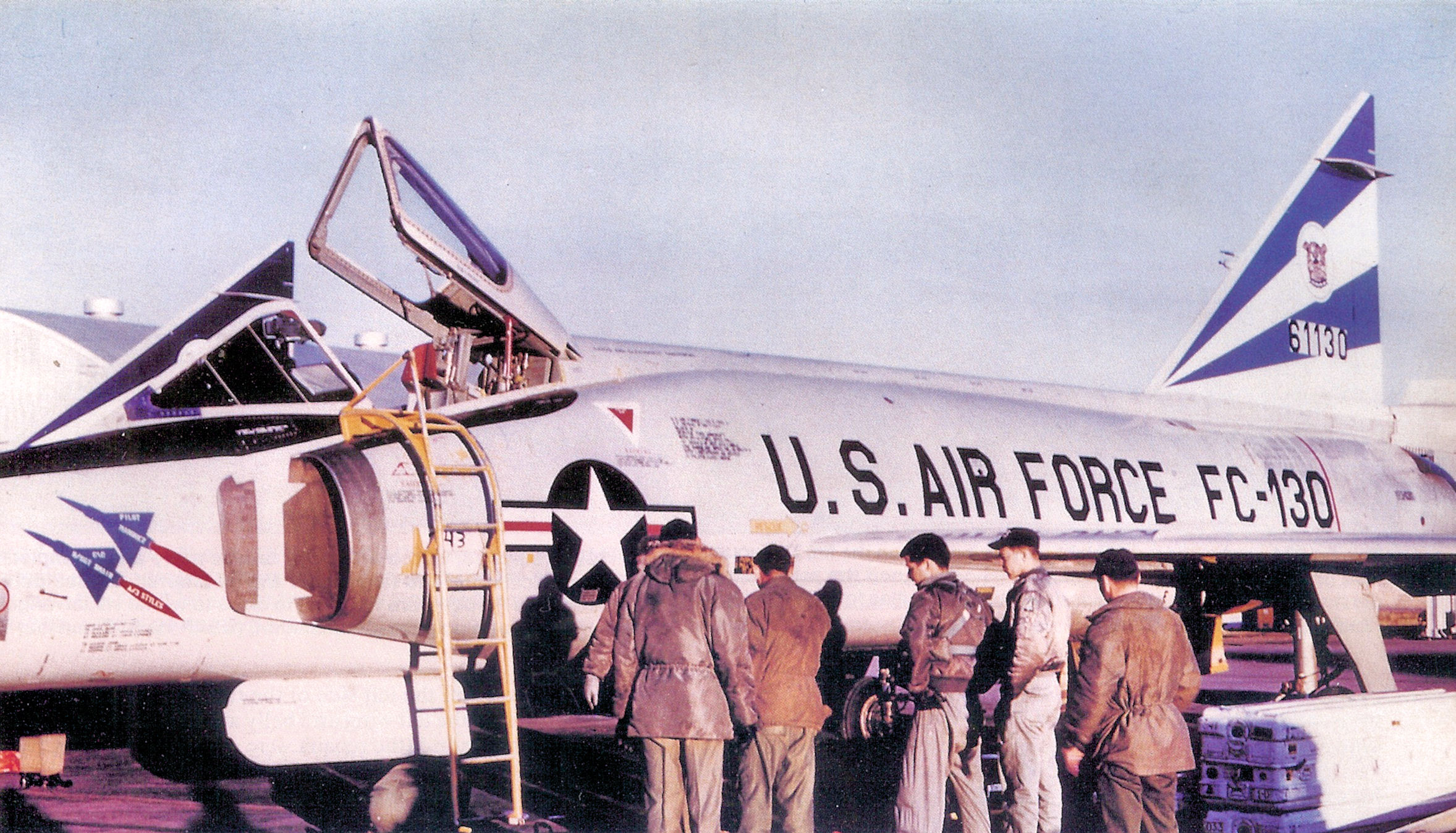 525th Fighter-Interceptor Squadron Convair F-102 Delta Dagger 56-1130